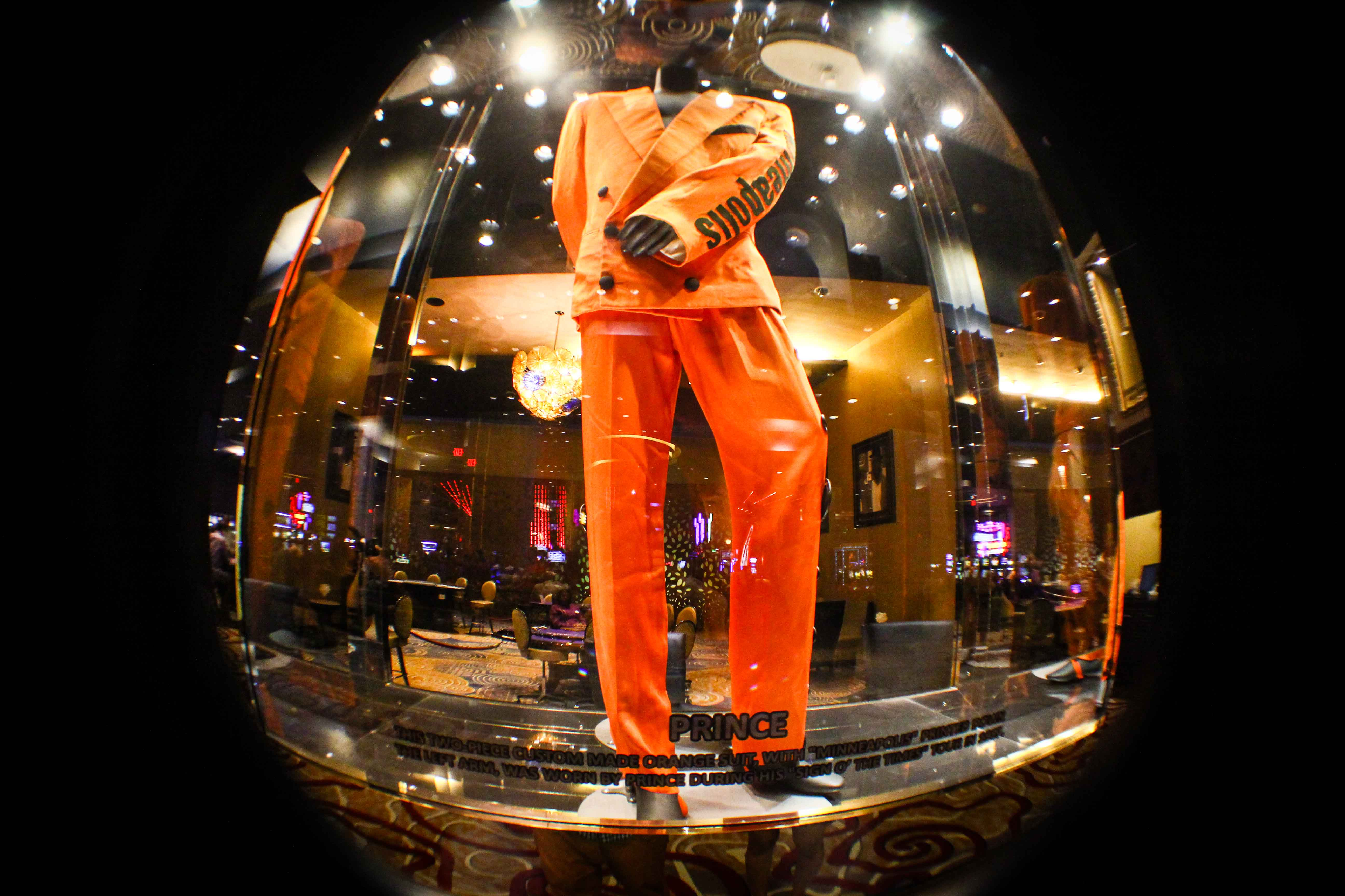 Prince's "Mineapolis" orange suits - HRC Punta Cana